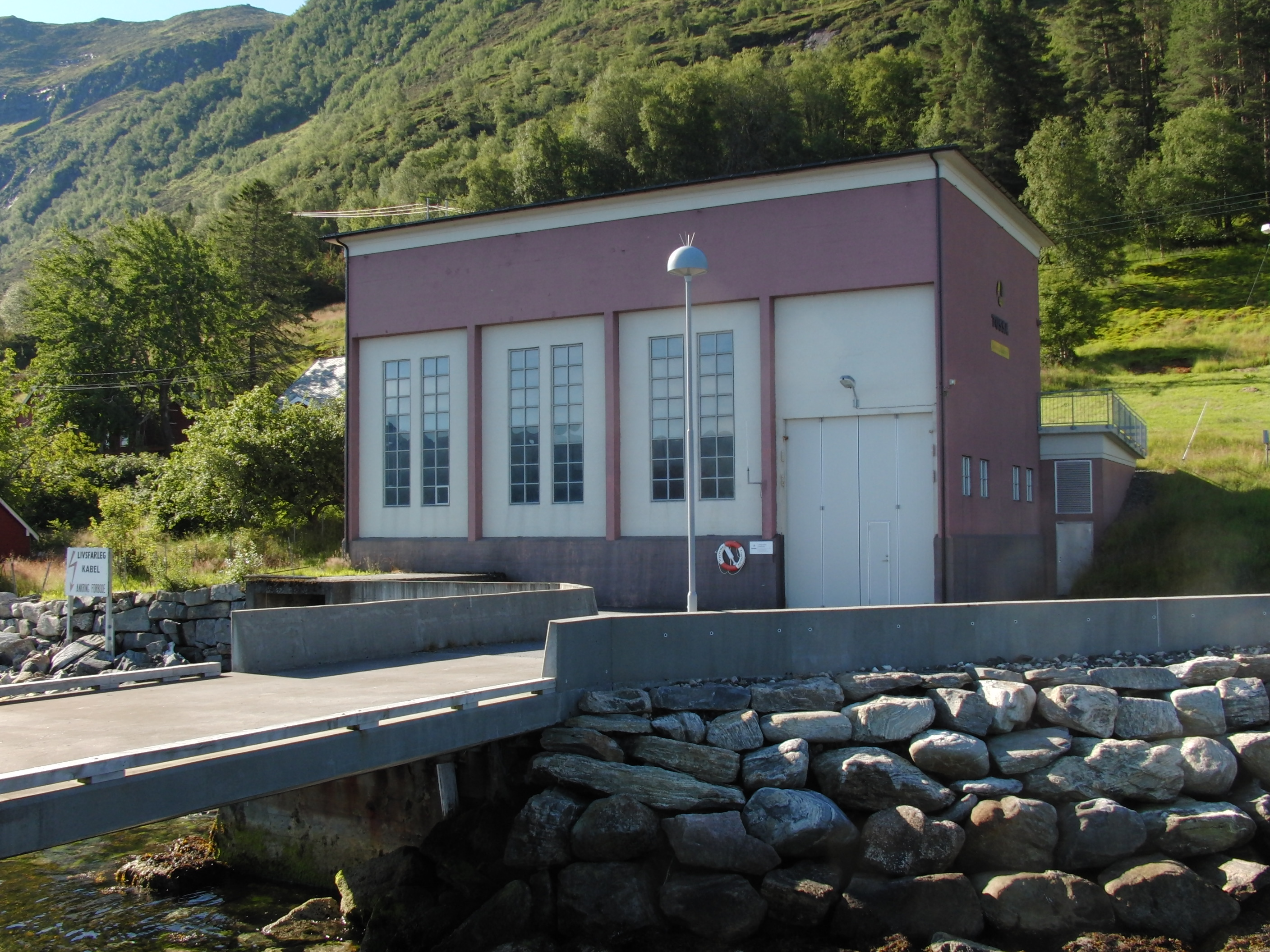 Sørbrandal kraftverk